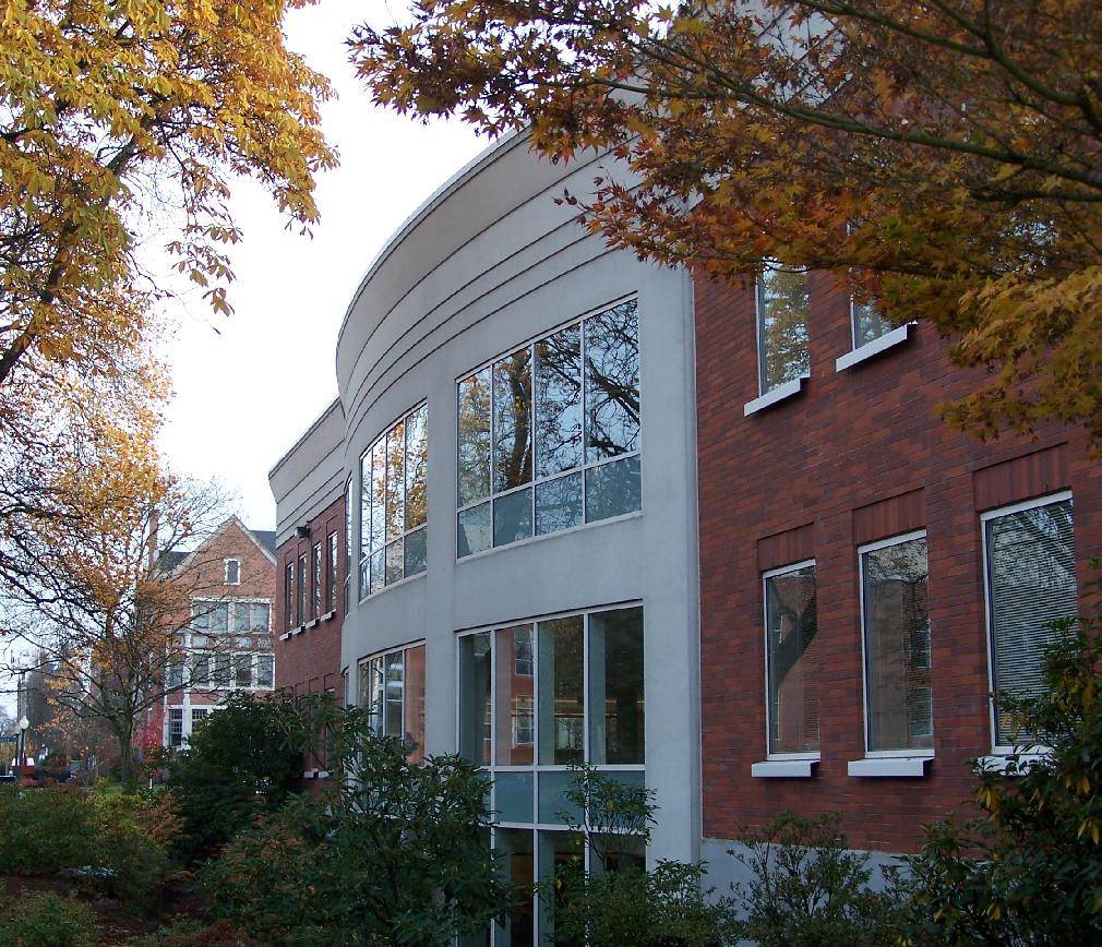 Willamette University College of Law Salem north side. THis is the exterior of the J. W. Long Law Library.